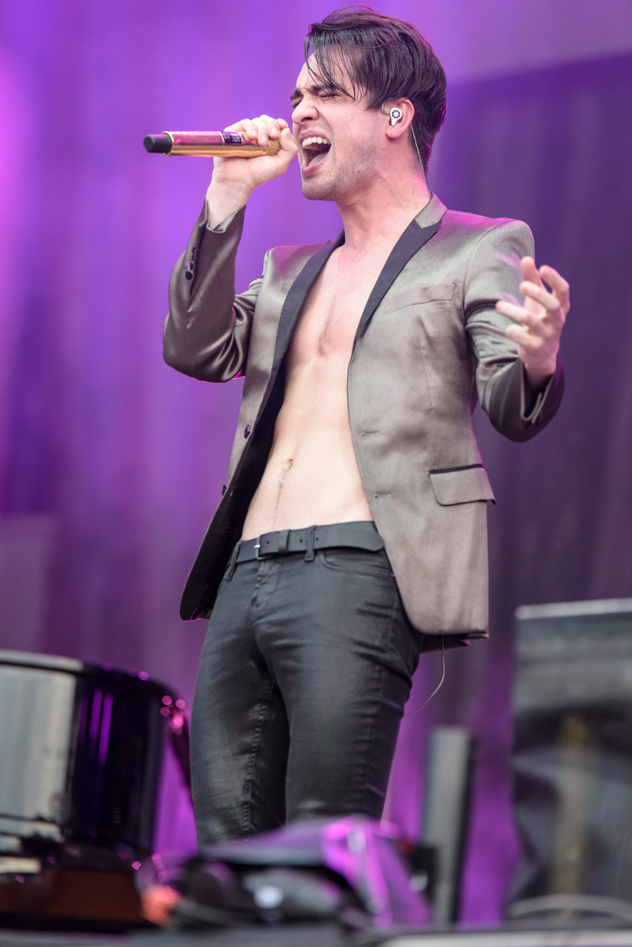 Panic! at the Disco @ Rock im Park 2016